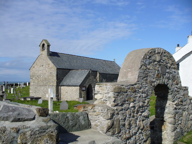 The church of Saint Patrick, Llanbadrig Believed to have been founded in 440 AD by St. Patrick who was shipwrecked on Ynys Badrig (Middle Mouse Island) but managed to cross to Anglesey and take refuge in a cave. He founded the church on the headland above the cave in thanks to God. In 1884 the church was restored with financial assistance from Lord Stanley of Alderley in Cheshire (who owned land on Anglesey), on condition that the interior included elements of the Muslim faith as his wife was a Muslim.